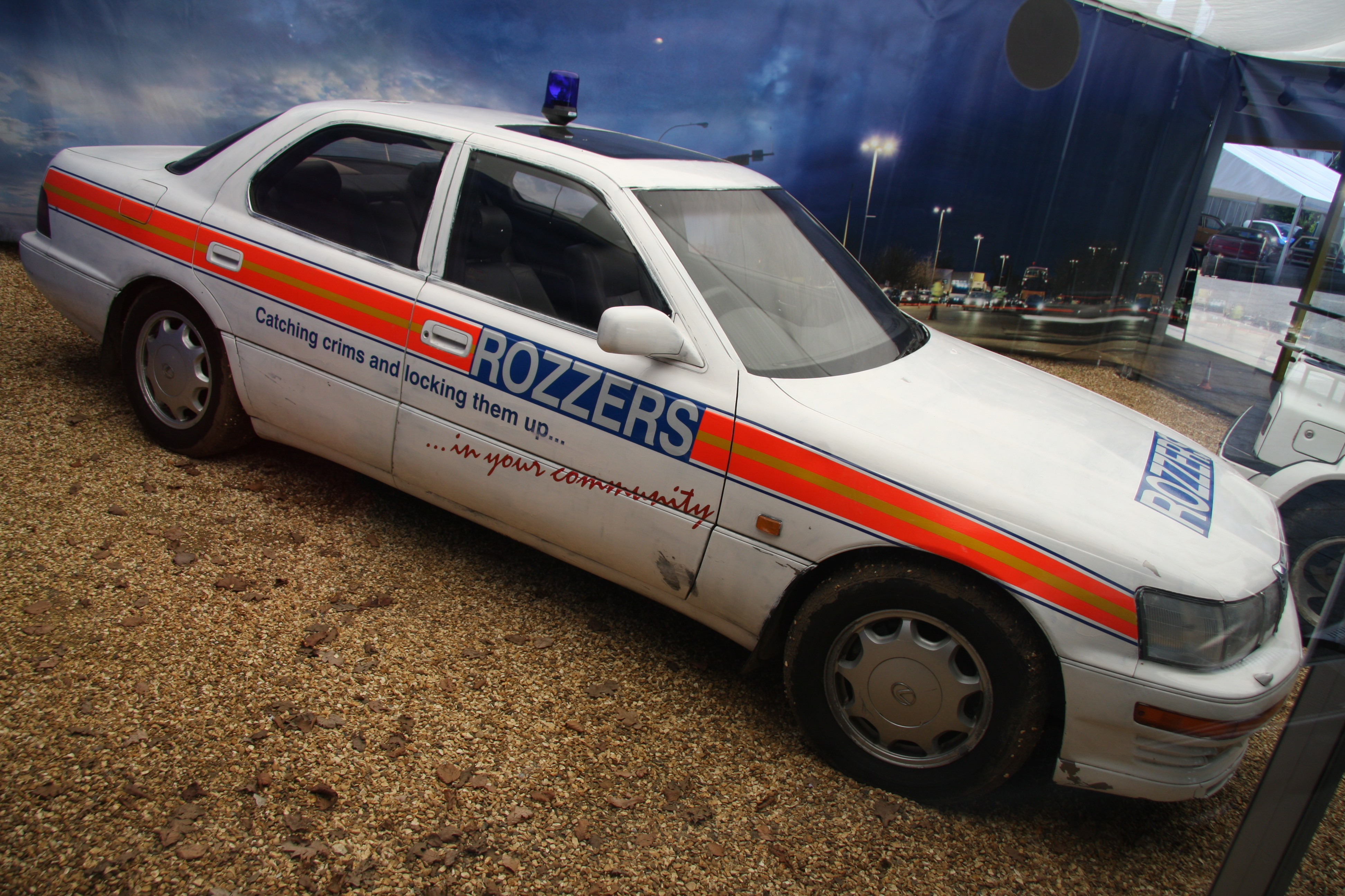 The 'Make a police car for a lot less money than the real police spend on their cars challenge'